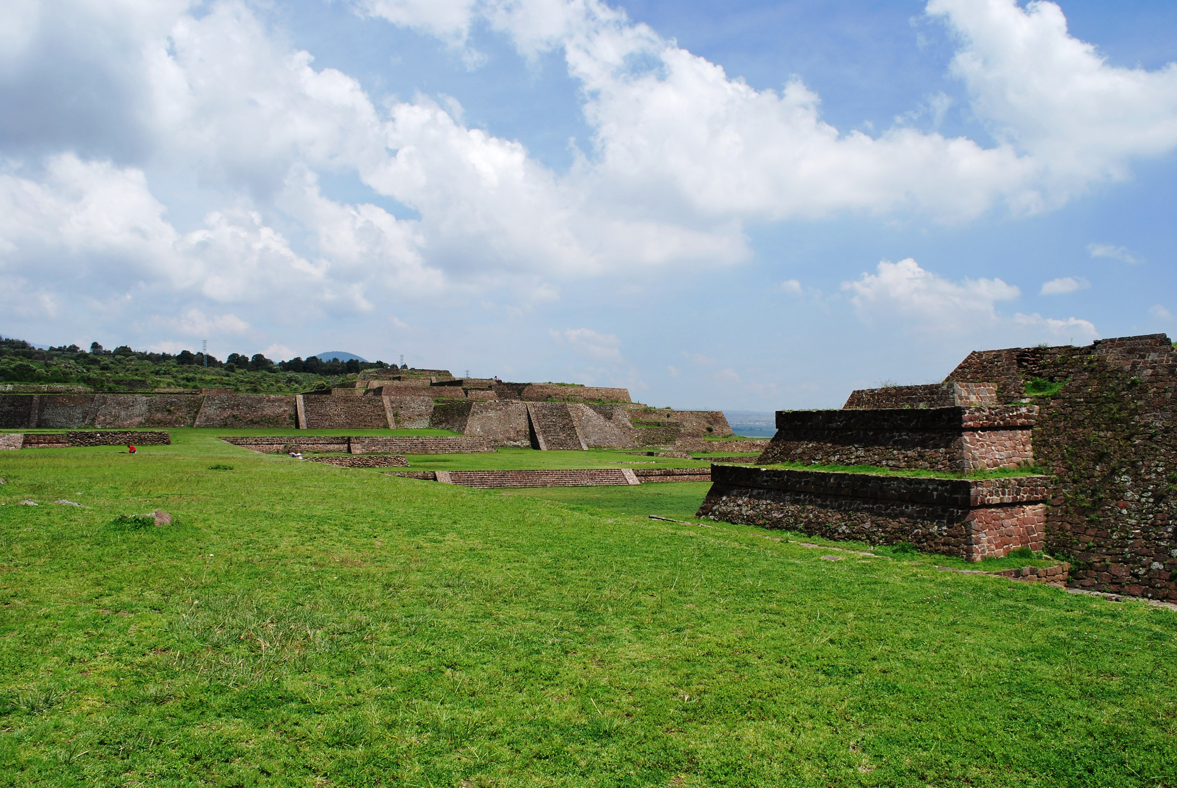 View of the Teotenango ruins from the southeast looking northwest. Located in Tenango del Valle, Mexico State